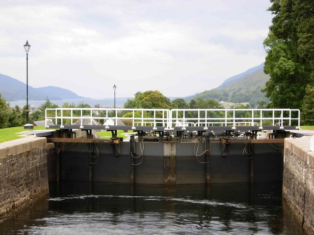 Showing the top lock of the eight lock flight on the Caledonian Canal which descends to sea level. The canal opens into Loch Linnhe which can be seen in the background.